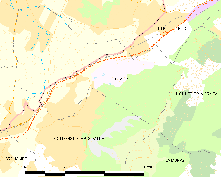 Map of French municipality Bossey